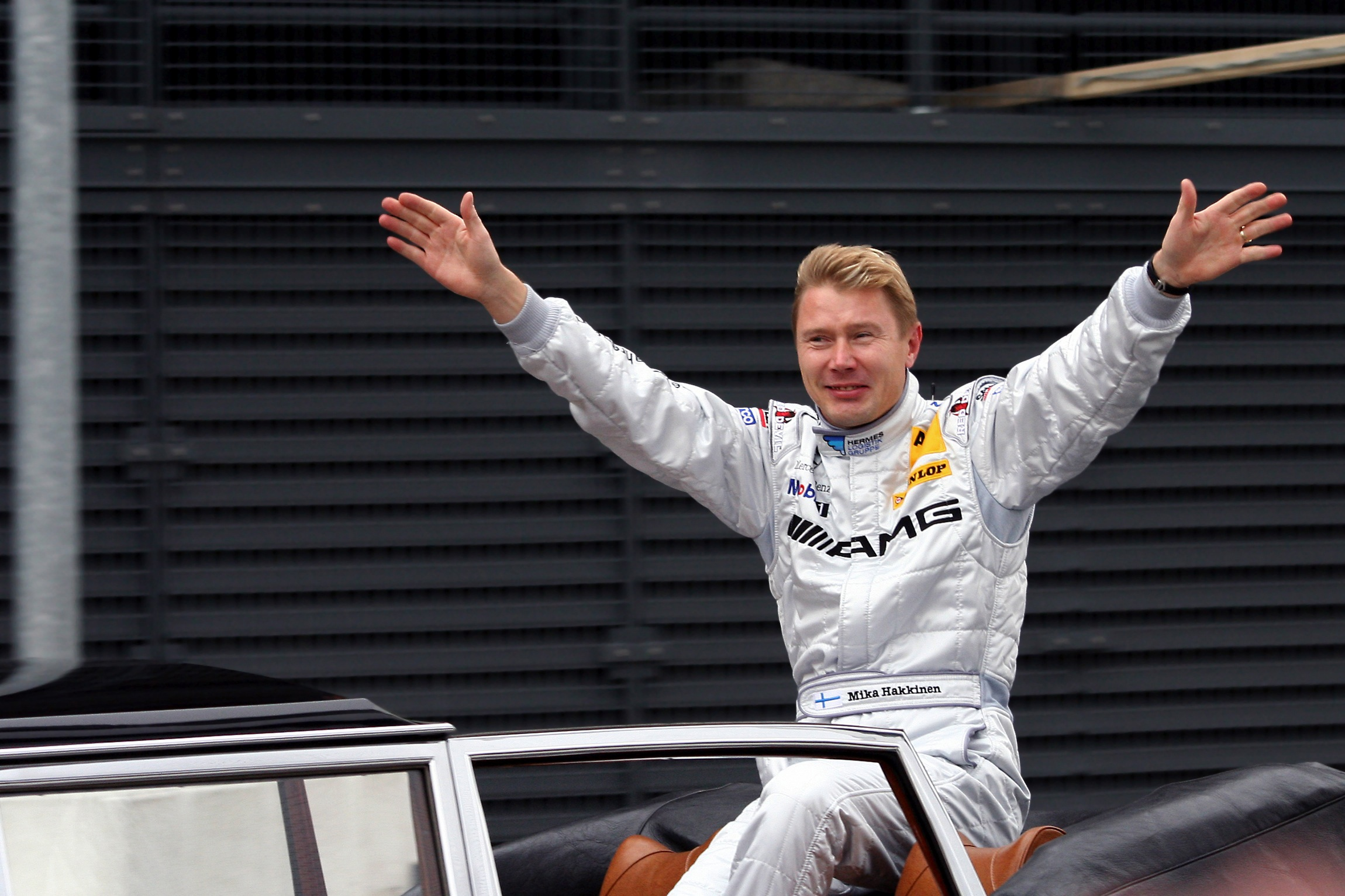 Mika Häkkinen at Stars and Cars 2007 in Stuttgart after announcing the end of his DTM career.